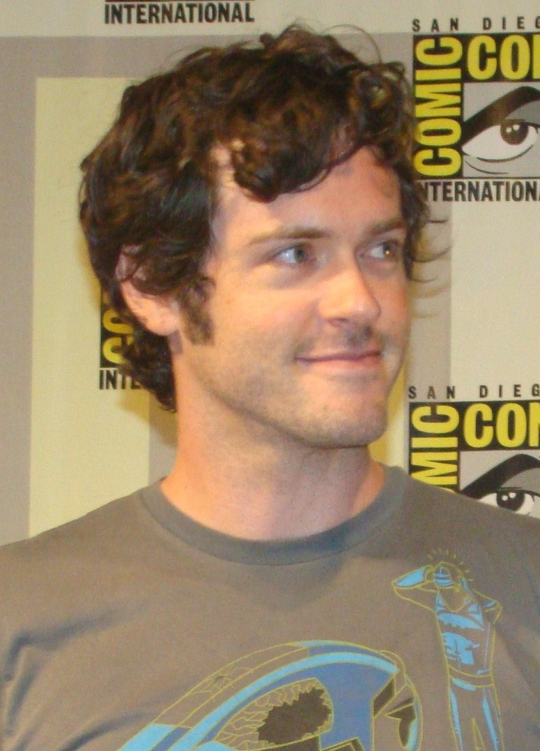 Brendan Hines, American actor